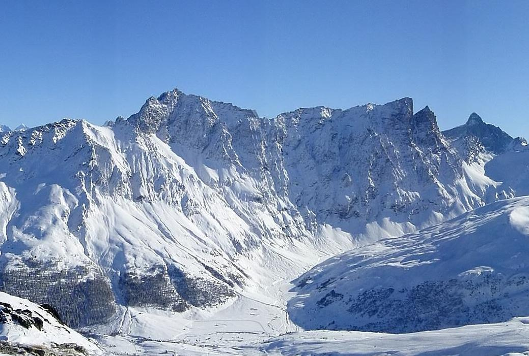 Piz Arblatsch, Piz Forbesch and Piz Platta from Piz Martegnas, Grison, Switzerland